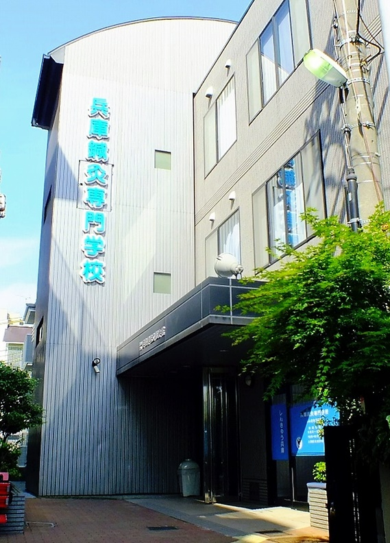 兵庫県鍼灸師会館 兵庫県鍼灸専門学校